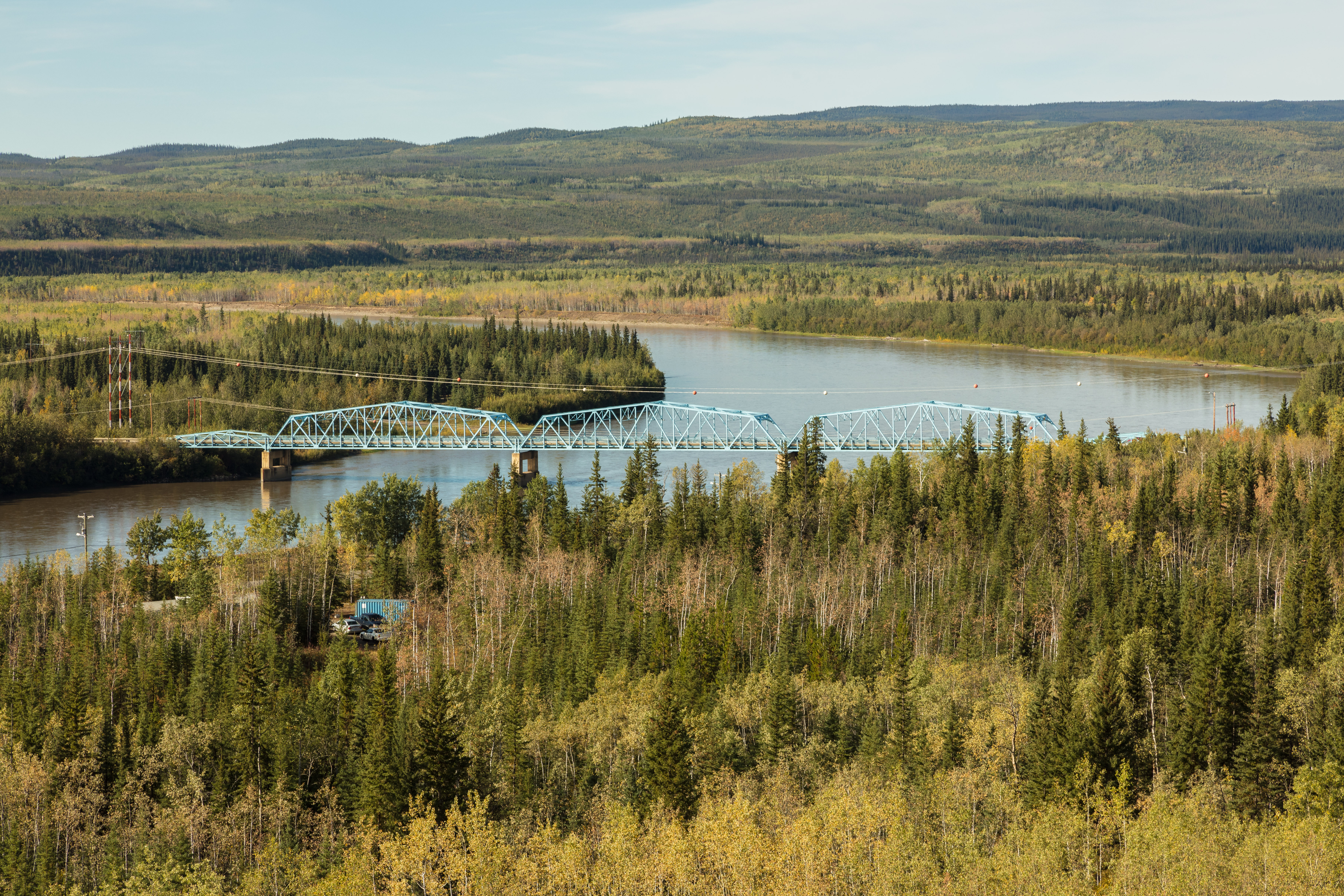 Bridge over the Pelly River, Pelly Crossing, Yukon, Canada